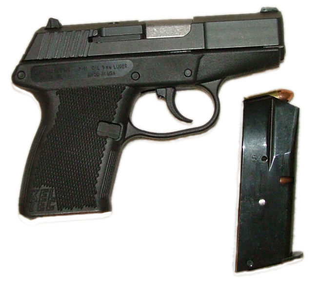 Description: Better picture than the current one of a Kel-Tec P-11 9mm pistol. Source: Self Date: December 14, 2006 Author: self Permission/Licensing: I took the picture and release it to the public domain.